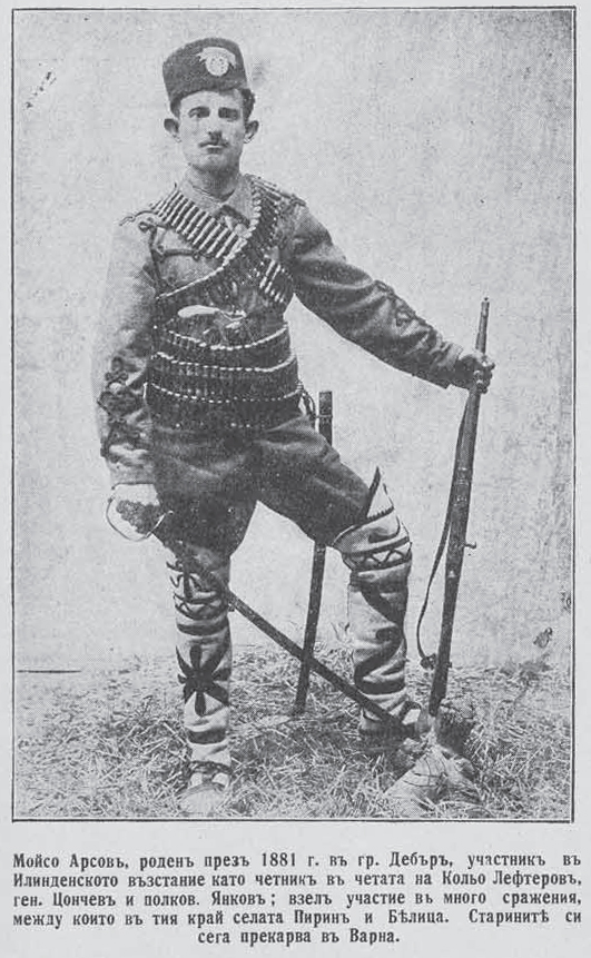 Moyso Arsov